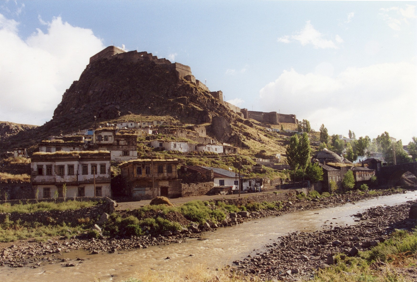 Citadel of Kars, Turkey. Picture taken by Christian Koehn (fragwürdig), August 2001